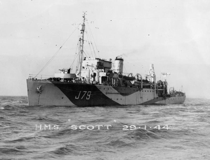 HMS Scott Underway.